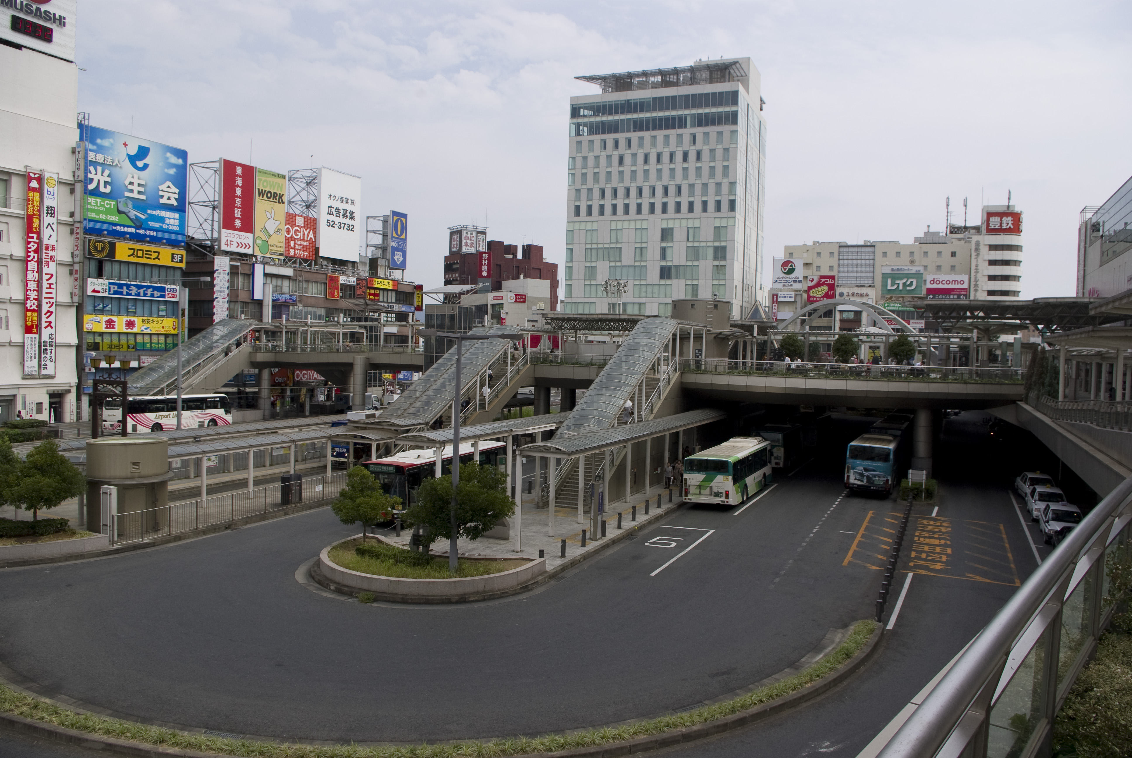 Toyohashi Station East Side Bus Terminal and Toyohashi Rail Road Ekimae Tram Stop